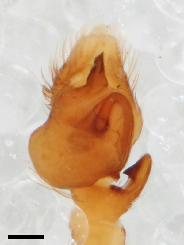 Pedipalp of holotype of Zygoballus tibialis jumping spider (male). Ventral view under alcohol. Scale equals 0.1 mm.